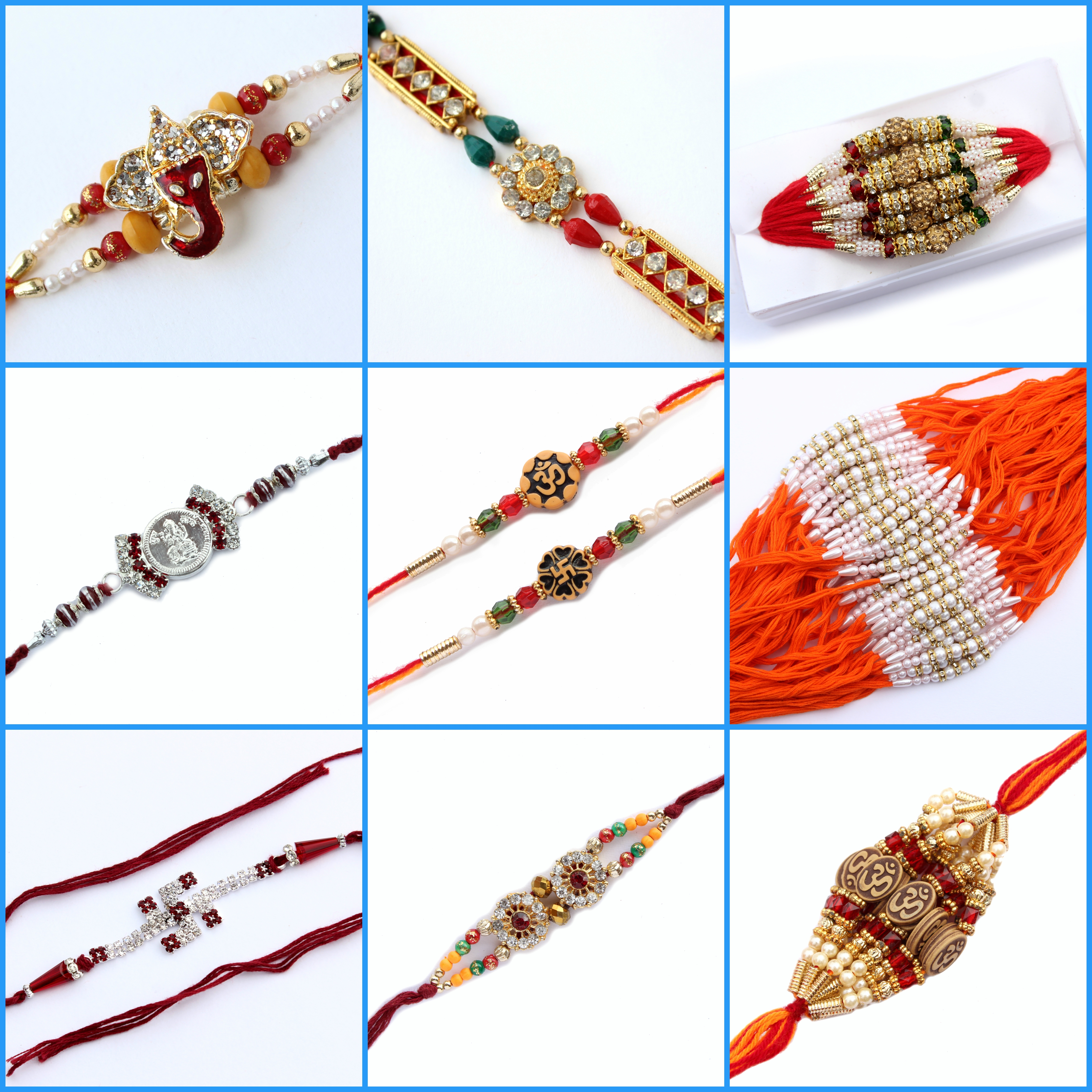 Different Rakhi, Rakshasutra